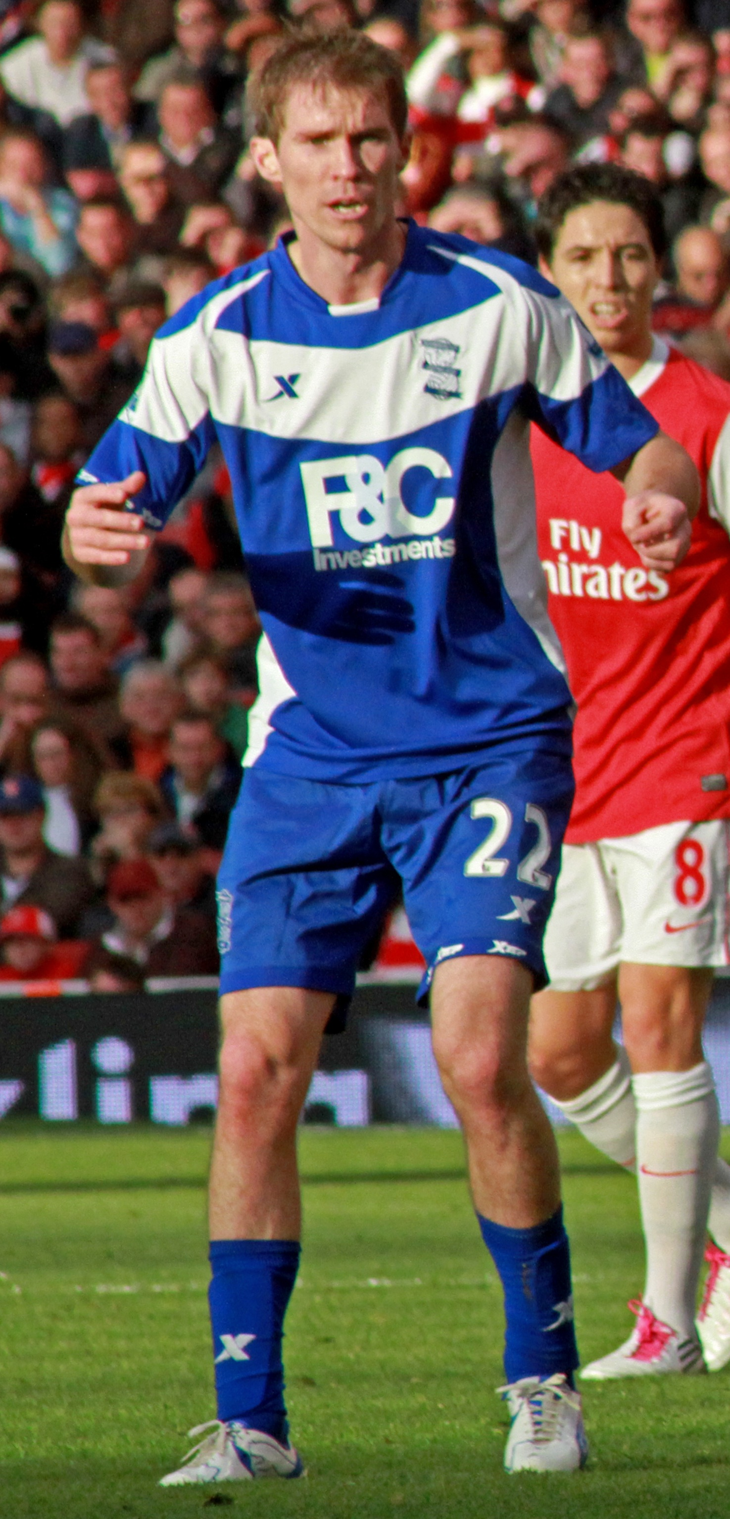 Arsenal v Birmingham City The Emirates 16 October 2010 (2-1)